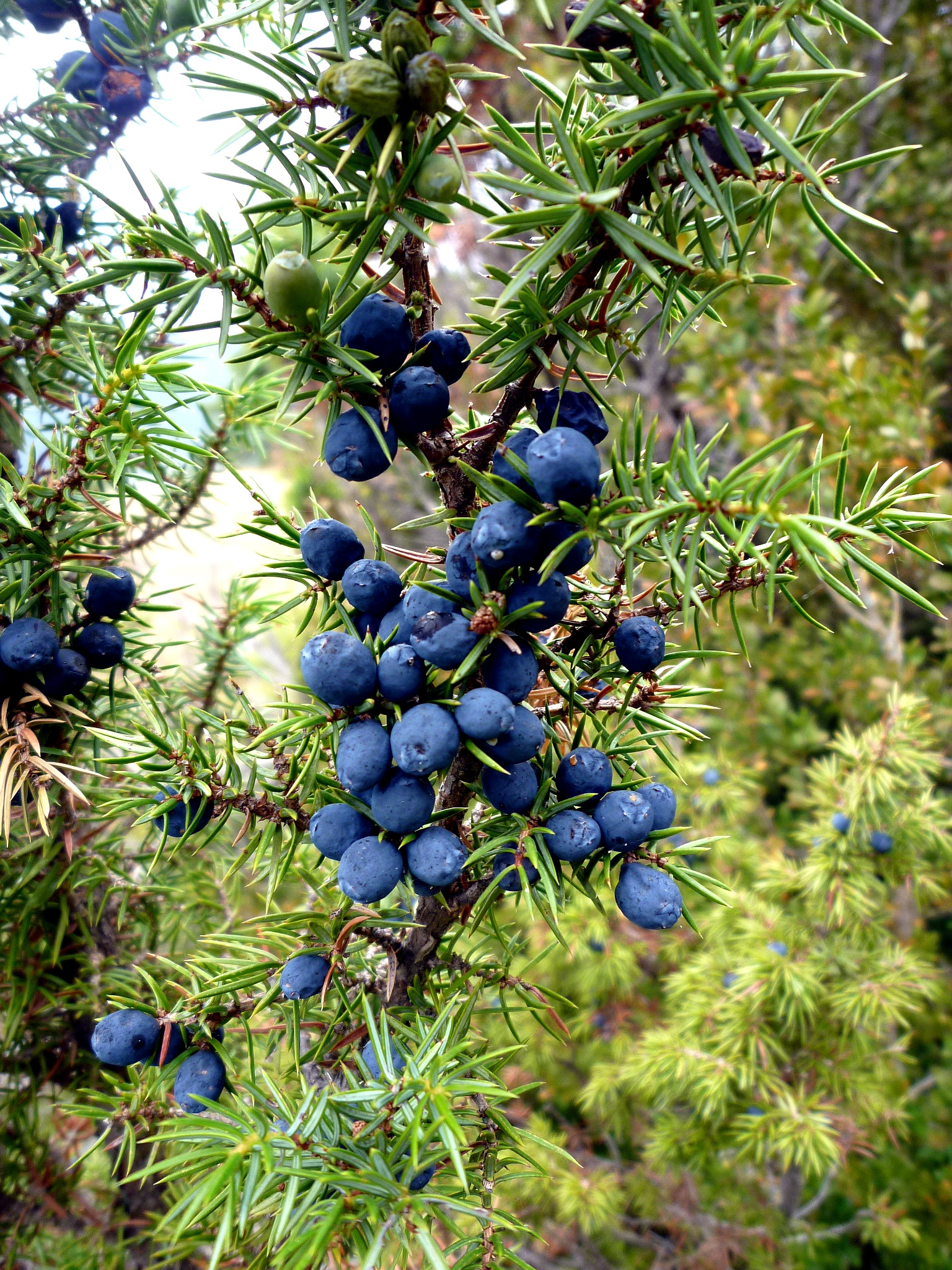 Juniperus communis. In la Bòfia, Guixers (Solsonès - Catalunya). To 1.730 m. altitude